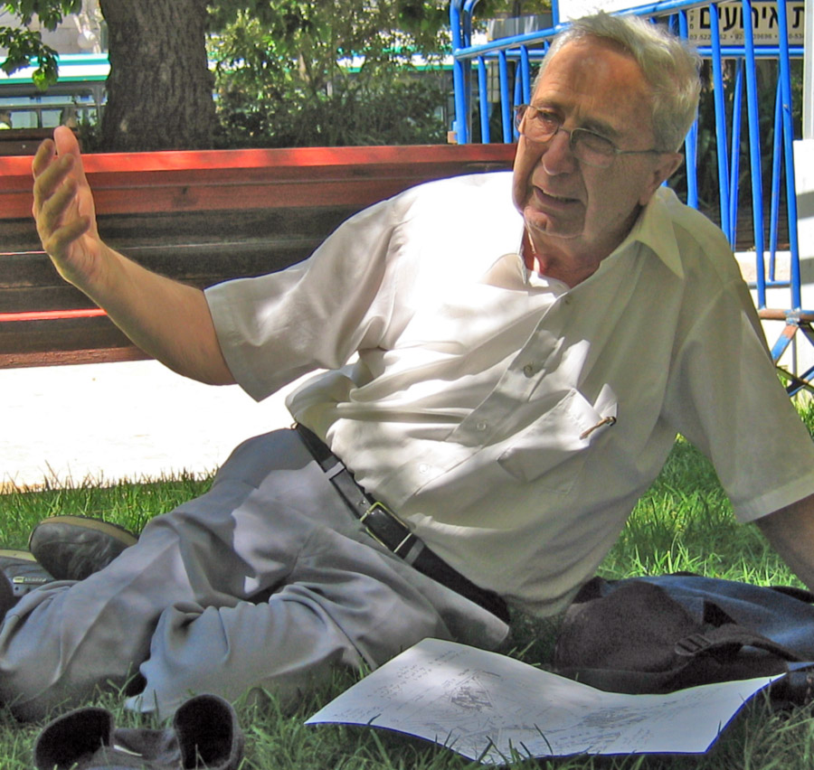 Prof. Yehoshua Ben Arieh